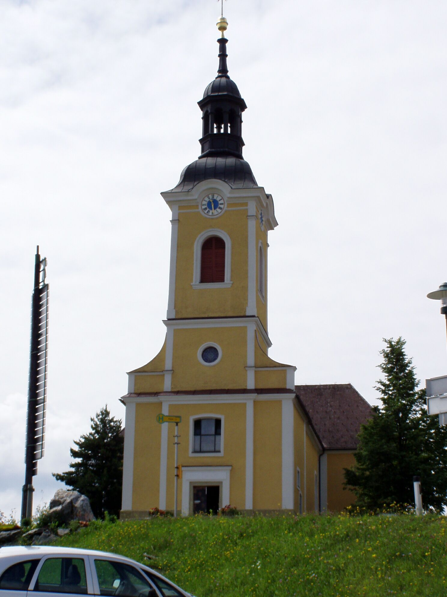 Catholic parish church in Kitzeck im Sausal